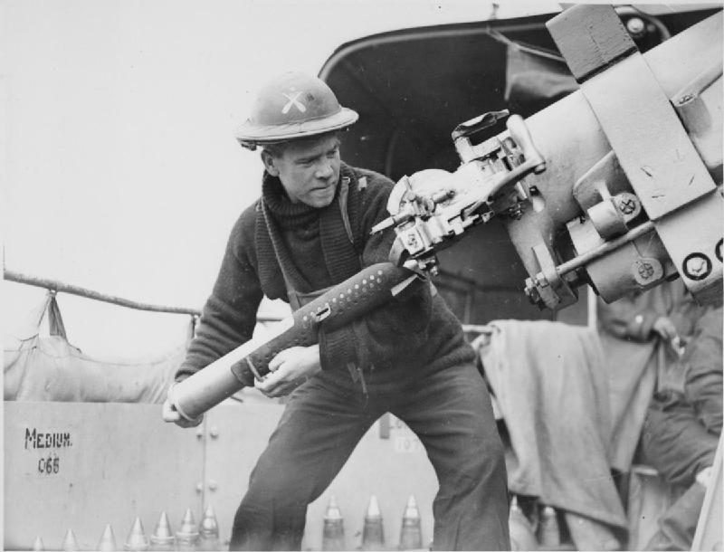 Able Seaman W Connor loads a 12 pounder 12 hundredweight anti-aircraft gun on board the destroyer HMS VANOC while at action stations during a convoy escort mission.